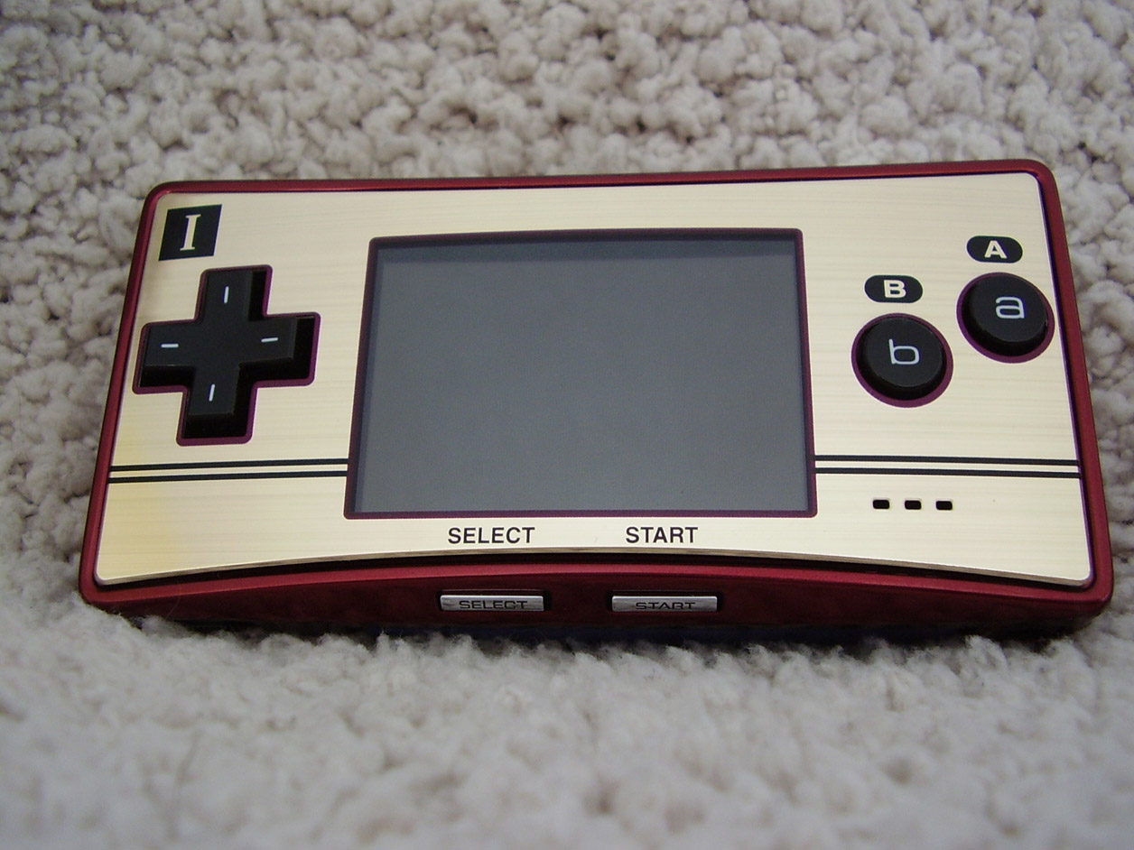 A clear picture of the Game Boy Micro, Famicom 20th Anniversary Edition.